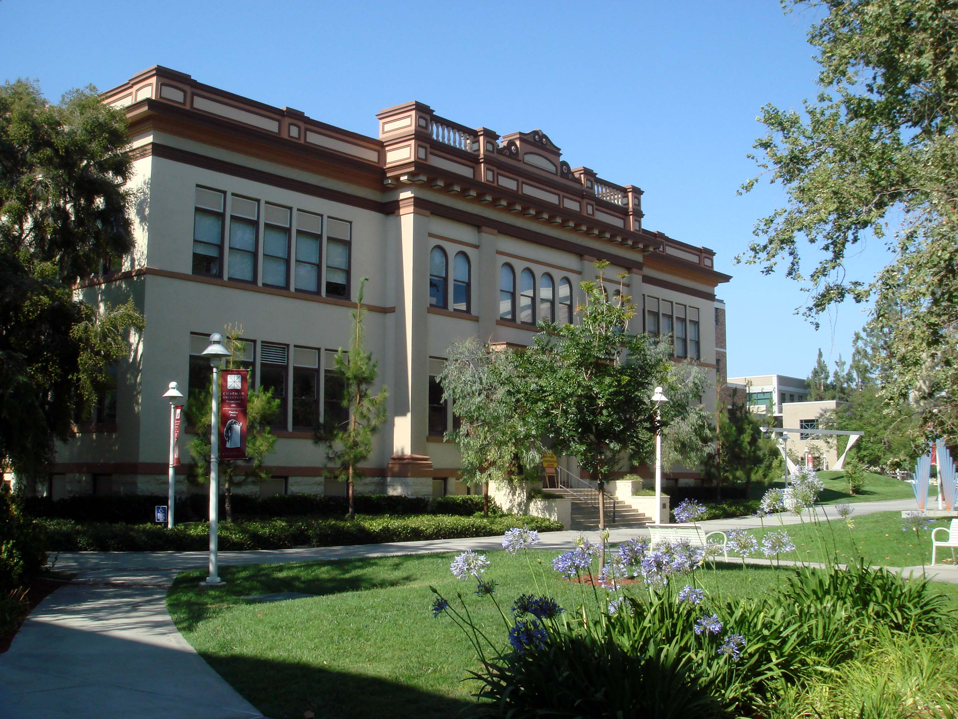 Chapman University (Orange, California): Pictured is Wilkinson Hall (left).